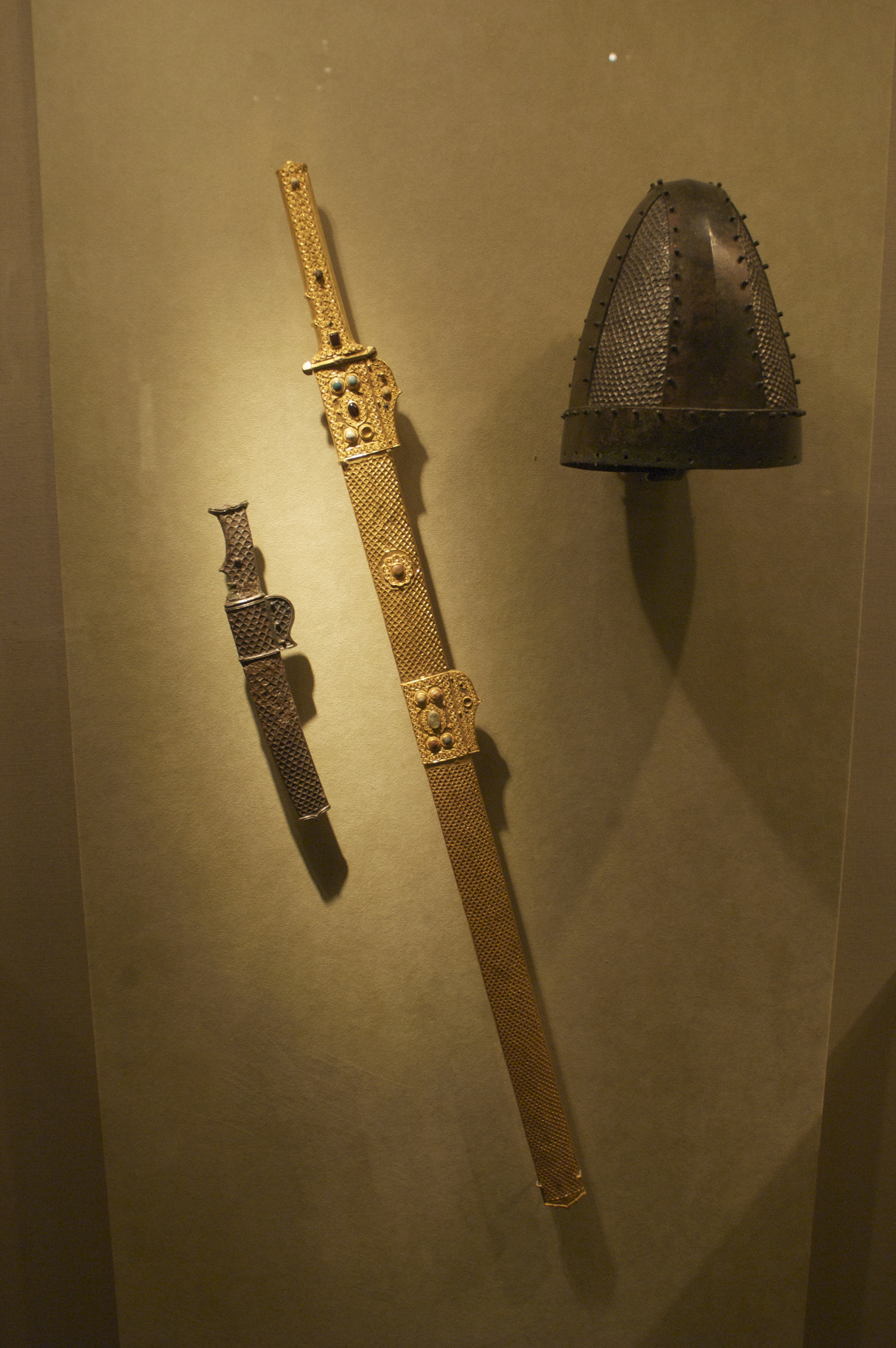 Sword and scabbard, A.D. 7th century Iran Blade: iron; scabbard and hilt: gold over wood, garnets, glass-paste; guard: gilt-bronze; L. 39 1/2 in. (100.3 cm) The Metropolitan Museum of Art, New York, Rogers Fund, 1965 (65.28a, b) View at the Metropolitan Museum of Art website Wikipedia Loves Art at the Metropolitan Museum of Art This photo of item # 65.28 at the Metropolitan Museum of Art was contributed under the team name "dmadeo" as part of the Wikipedia Loves Art project in February 2009. Metropolitan Museum of Art The original photograph on Flickr was taken by dmadeo—please add a comment to the original Flickr page whenever a use has been made on Wikipedia or another project. Project galleries on Flickr: this institution, this team